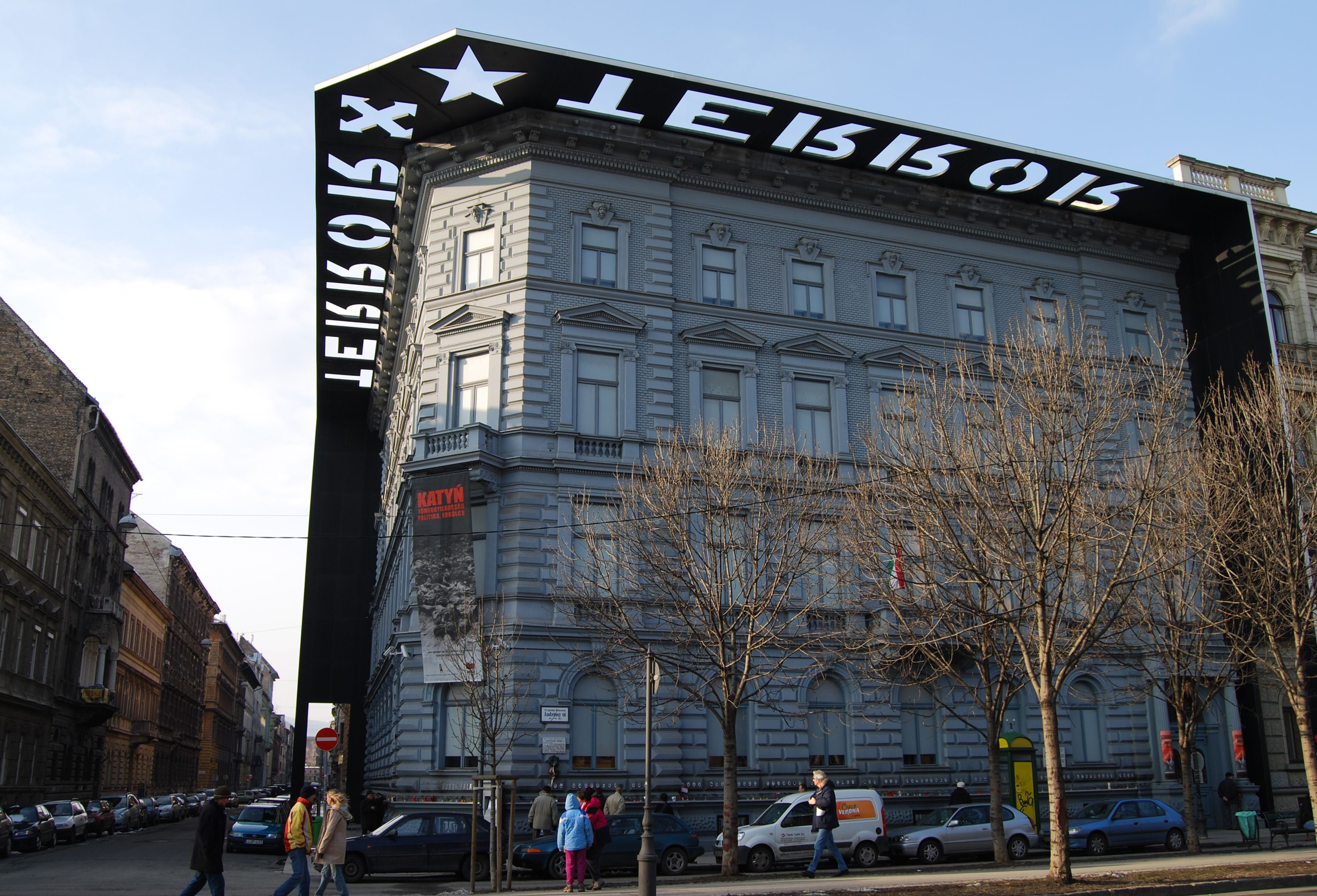 House of Terror in Budapest, Hungary - Google Maps - Google Earth